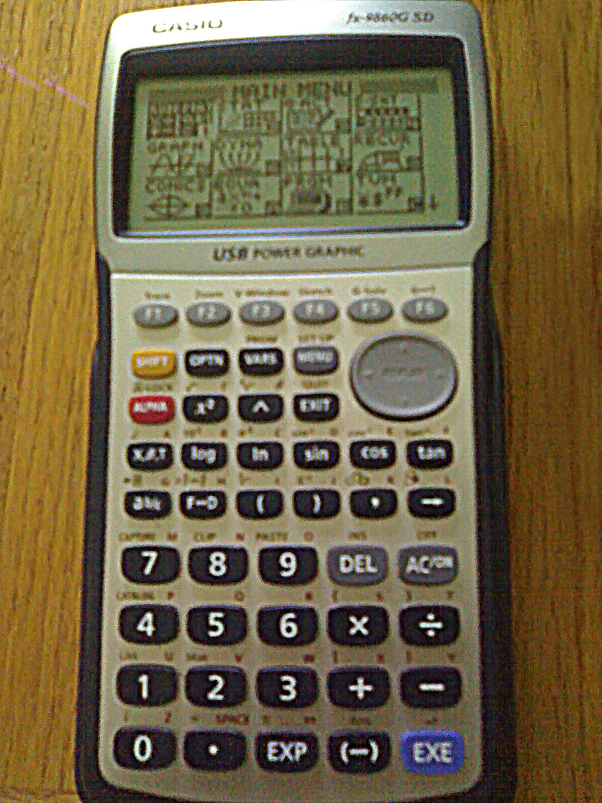 Casio fx-9860G SD calculator 中文（中国大陆）: Casio fx-9860G SD计算器